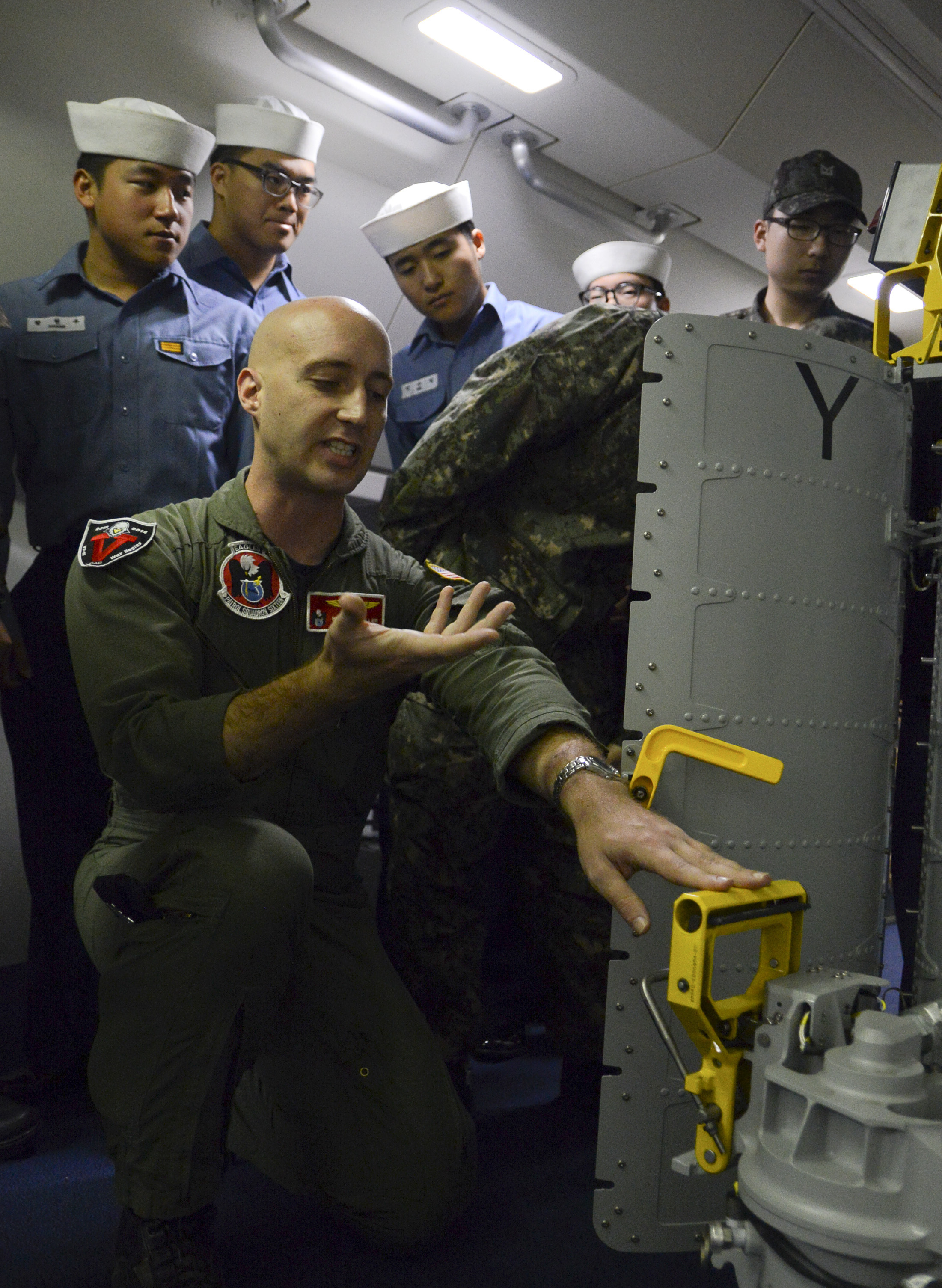 Naval Aircrewman Operator 2nd Class Borg Miller, an acoustic systems operator assigned to Patrol Squadron (VP) 16, describes the process of launching sonobuoys to Republic of Korea sailors during a tour of the U.S. Navy P-8A Poseidon aircraft March 30 in Busan. The U.S. Navy's P-8A Poseidon is conducting its first training missions in the Republic of Korea in support of Exercise Foal Eagle 2014. VP-16 is currently deployed in the U.S. 7th Fleet area of responsibility supporting security and stability operations in the Indo-Asia-Pacific region. (U.S. Navy photo by Mass Communication Specialist 1st Class (SW/EXW/AW) Joshua Bryce Bruns)